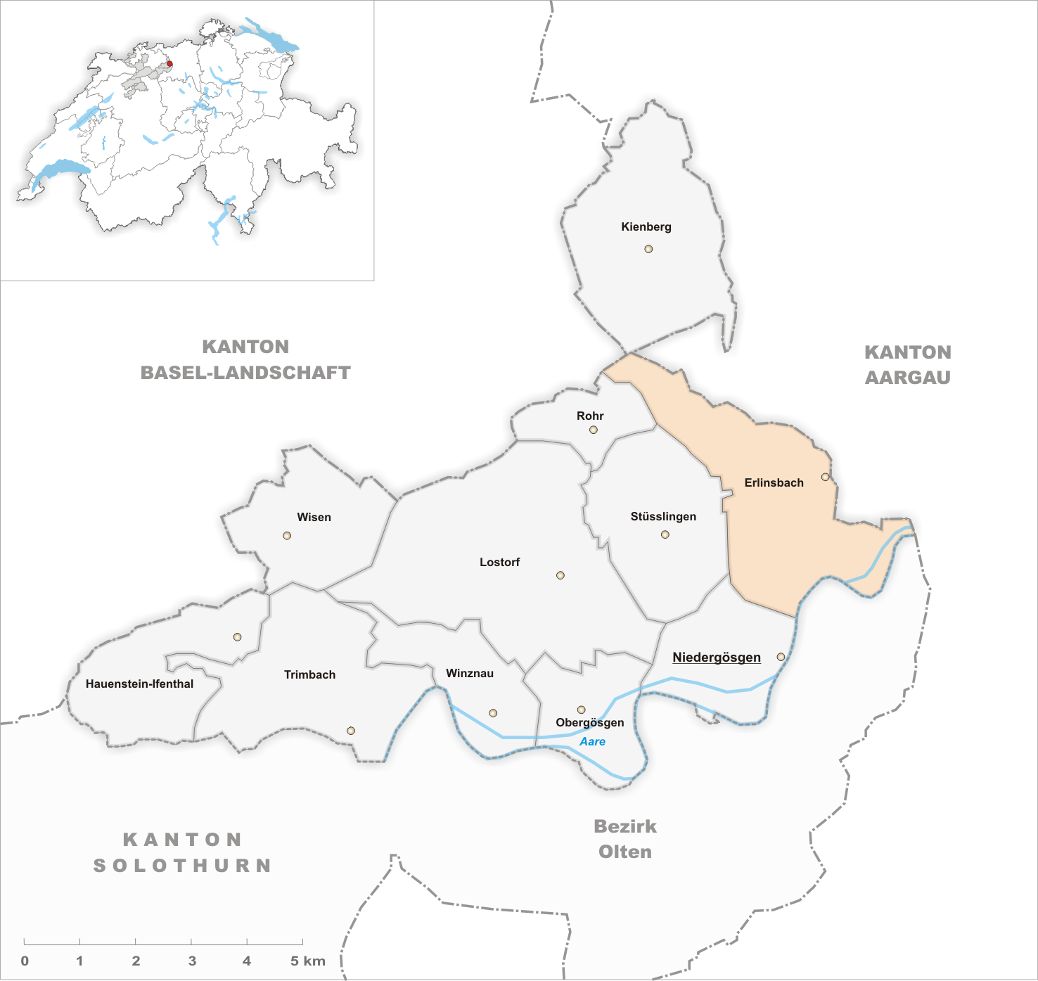 Municipality Erlinsbach